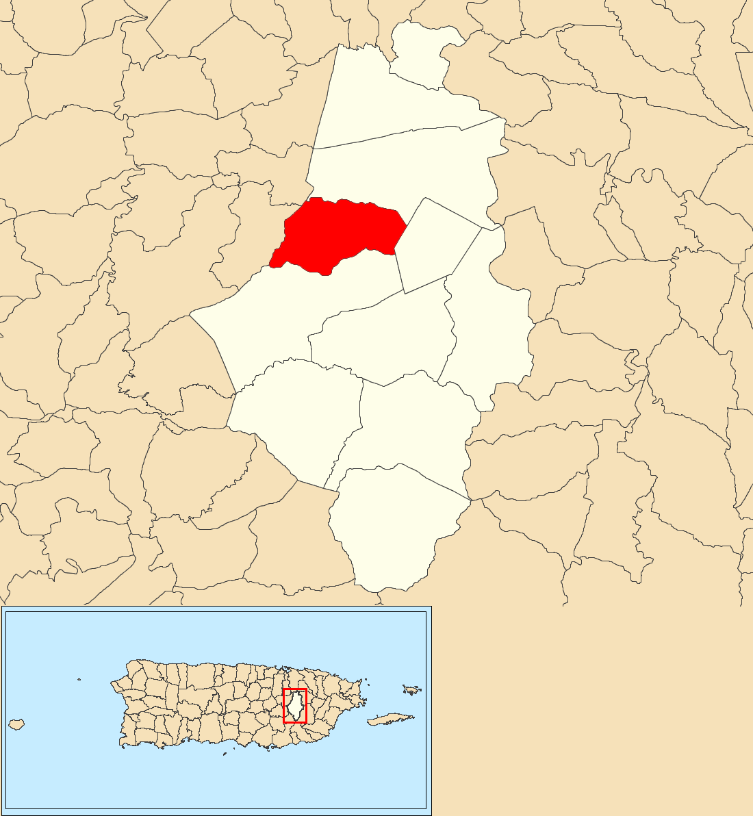 Cañabon, Caguas, Puerto Rico locator map